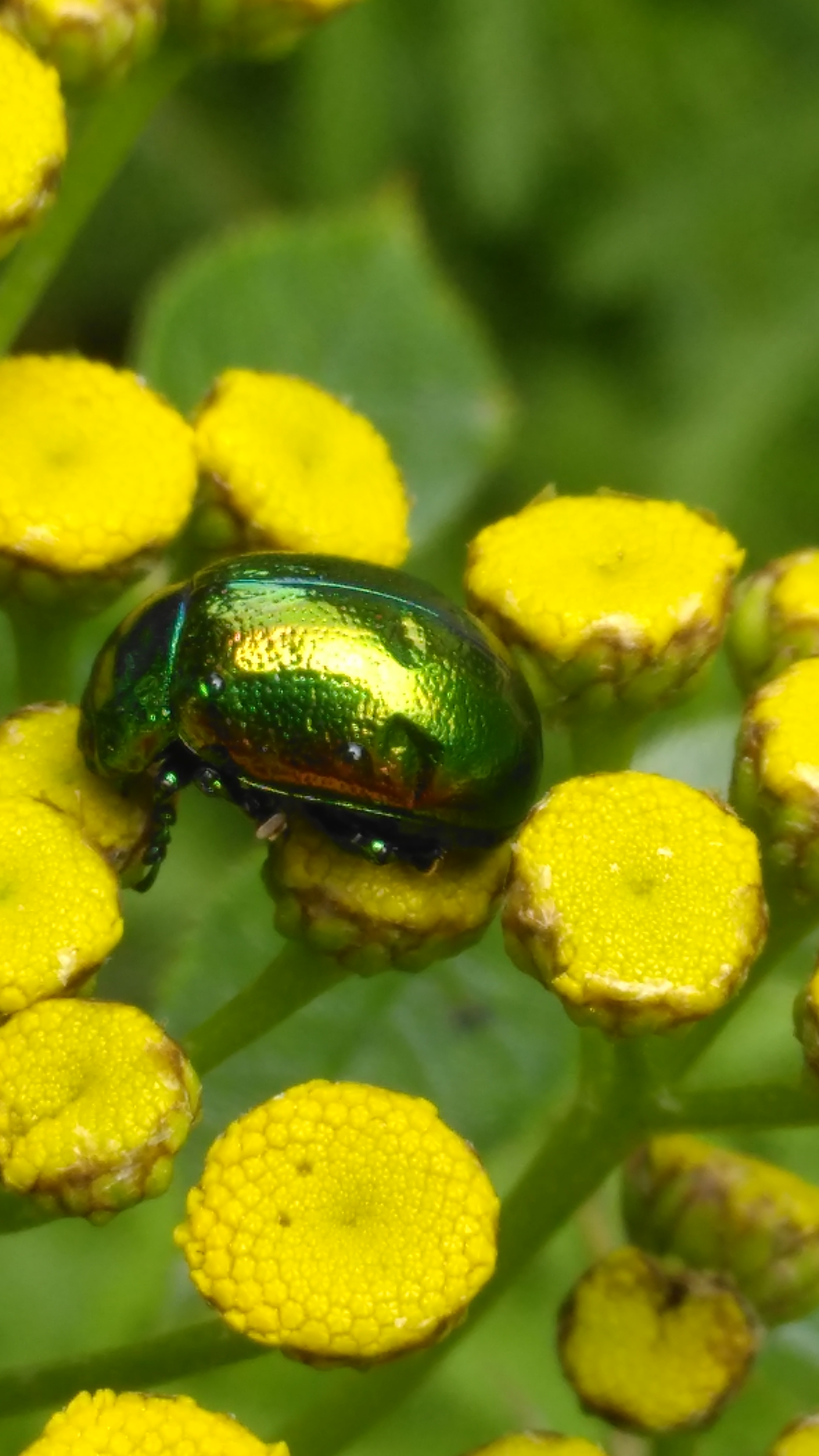 Tansy beetle (Chrysolina graminis) with damaged elytra on Tansy flower heads, Museum Gardens, York, UK.